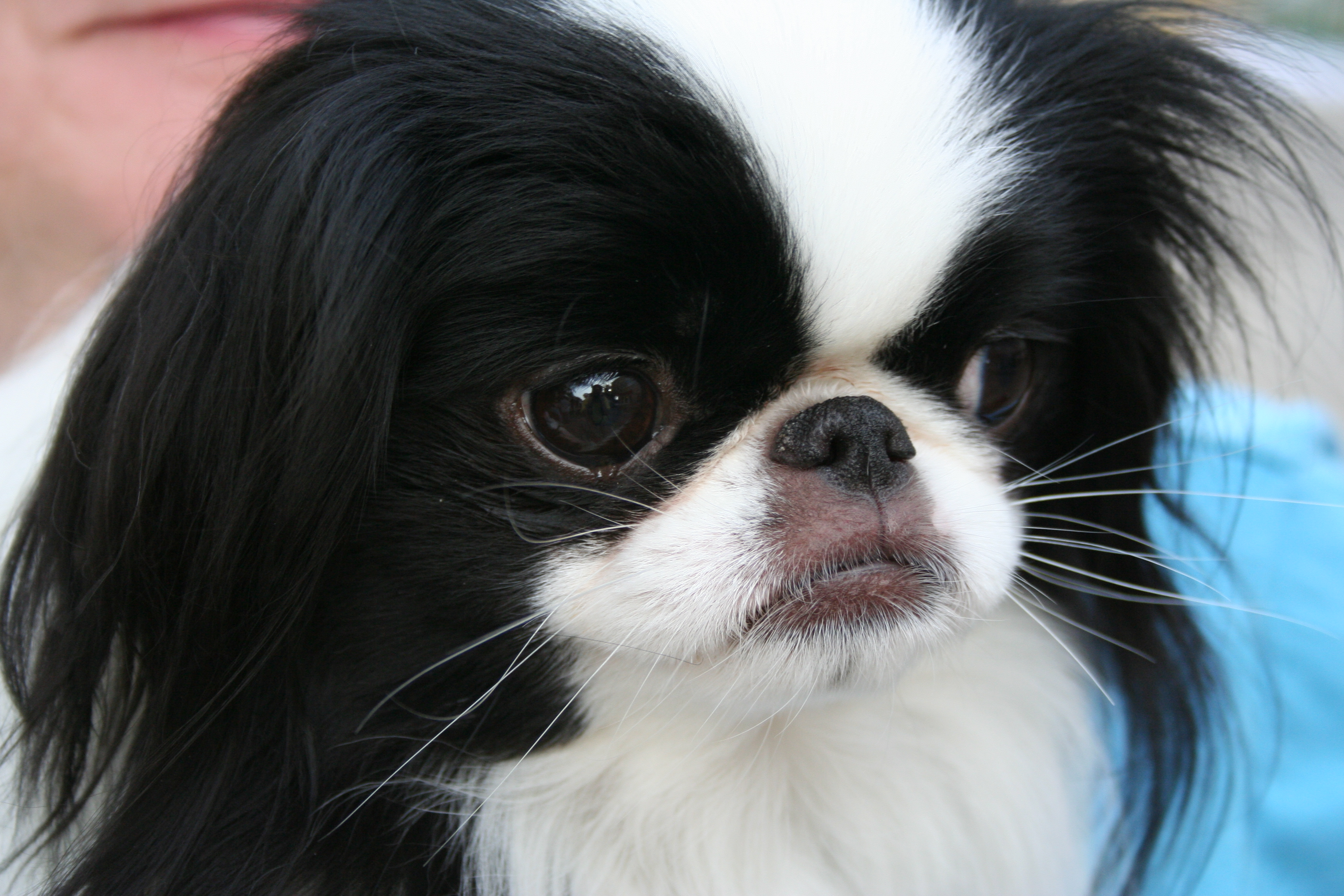 A Japanese Chin.